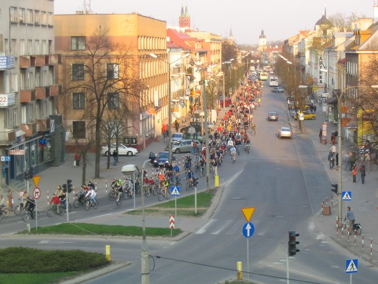 Critical Mass in Białystok, Poland, Lipowa street